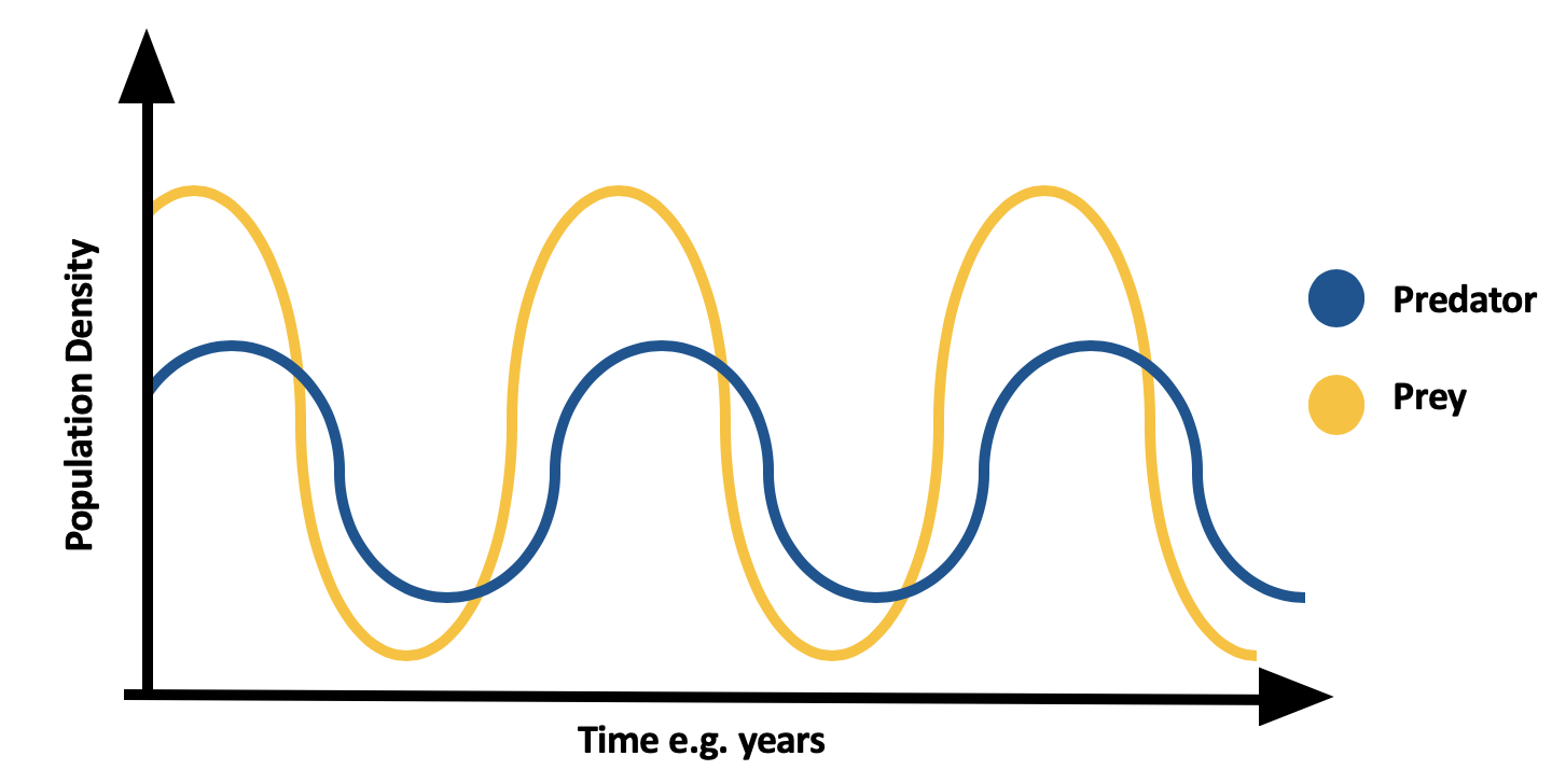 A generalised graph of a predator-prey population density cycle. The blue curve represents the predator, the orange curve the prey.